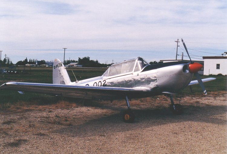 I took this photo of a deHavilland DHC-1A-1 Chipmunk at St Andrews Airport near Winnipeg in 1986.